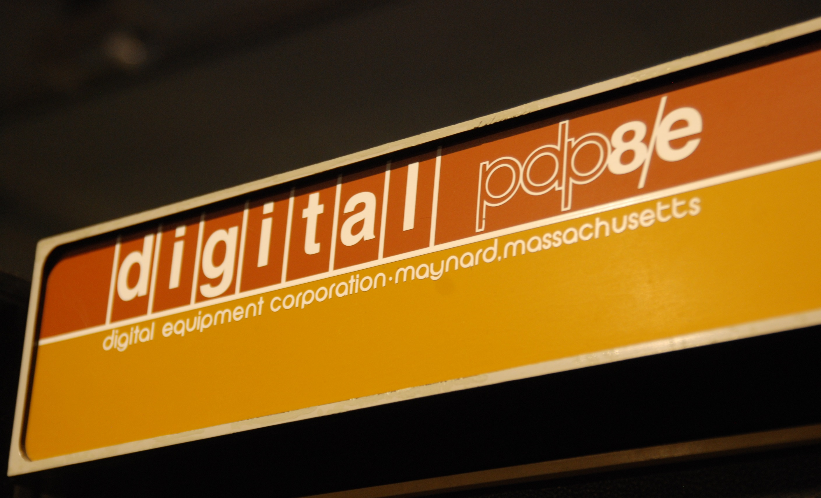 Front panel with name of the PDP-8/E on display at the Living Computer Museum in Seattle, Washington.